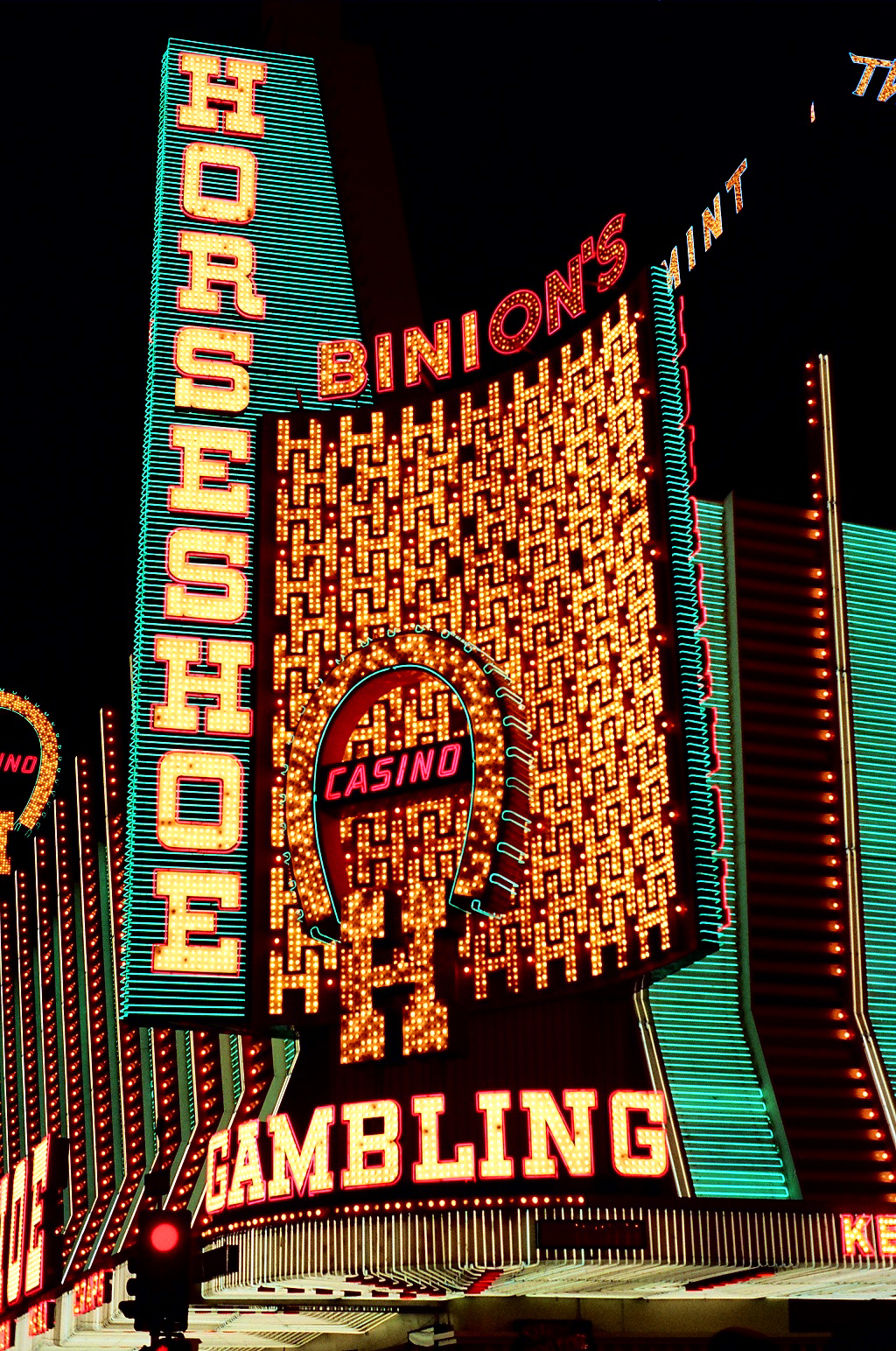 Former neon sign of Binion's Horseshoe casino (1986) — on Fremont Street in Downtown Las Vegas. Site of present day Binion's Gambling Hall and Hotel, at the Fremont Street Experience.